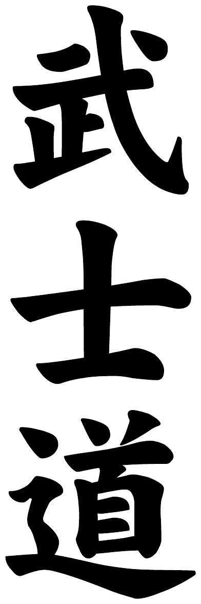 The Japanese Characters (Kanji) for Bushido written in Gyo-Kaisho style calligraphy. Bushido means "way of the warrior". Included down the side are the 7 common tenets of Bushido.